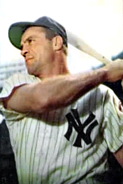 New York Yankees right fielder Hank Bauer.